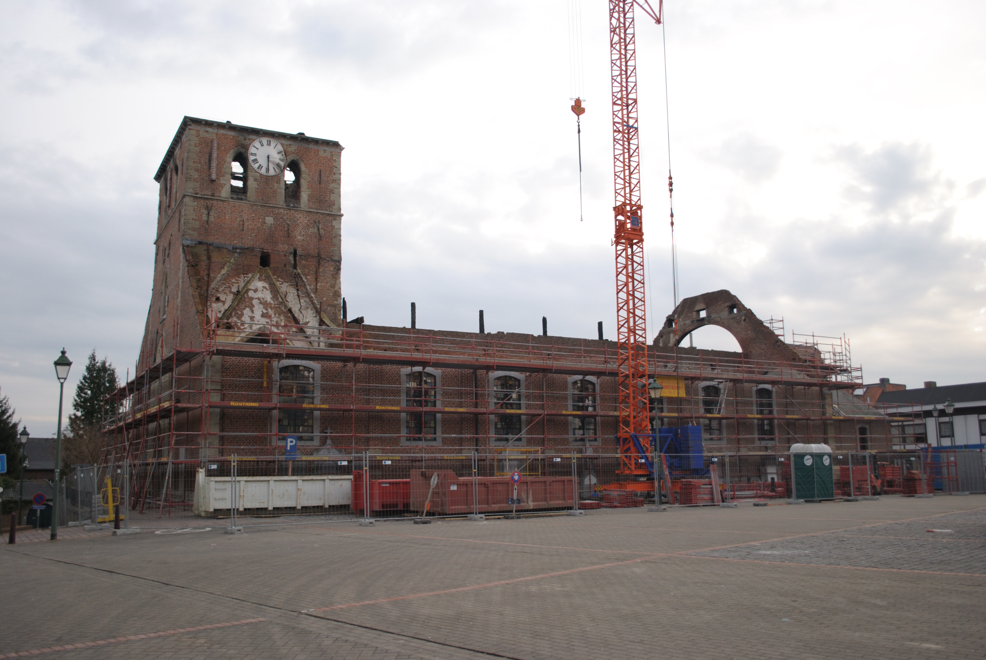 Construction site at the ruin of the historic church of Saint Peter at Galmaarden, Belgium. The classicist church and 13-th century tower core were destroyed by fire in the morning of 12 May 2008. Nikon D60 f=20mm f/3.8 at 1/400s ISO 200. Colour corrected and reduced using Nikon ViewNX 1.0.3.